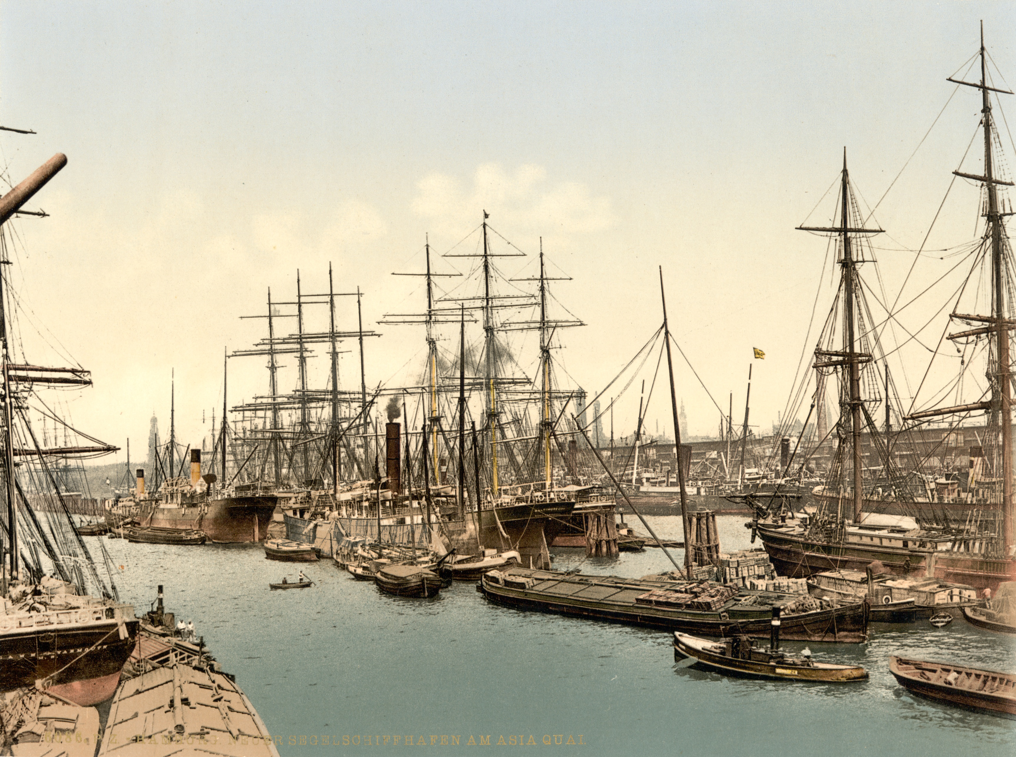 Print no. "6086".; Title from the Detroit Publishing Co., catalogue J-foreign section. Detroit, Mich. : Detroit Photographic Company, 1905..; Forms part of: Views of Germany in the Photochrom print collection.